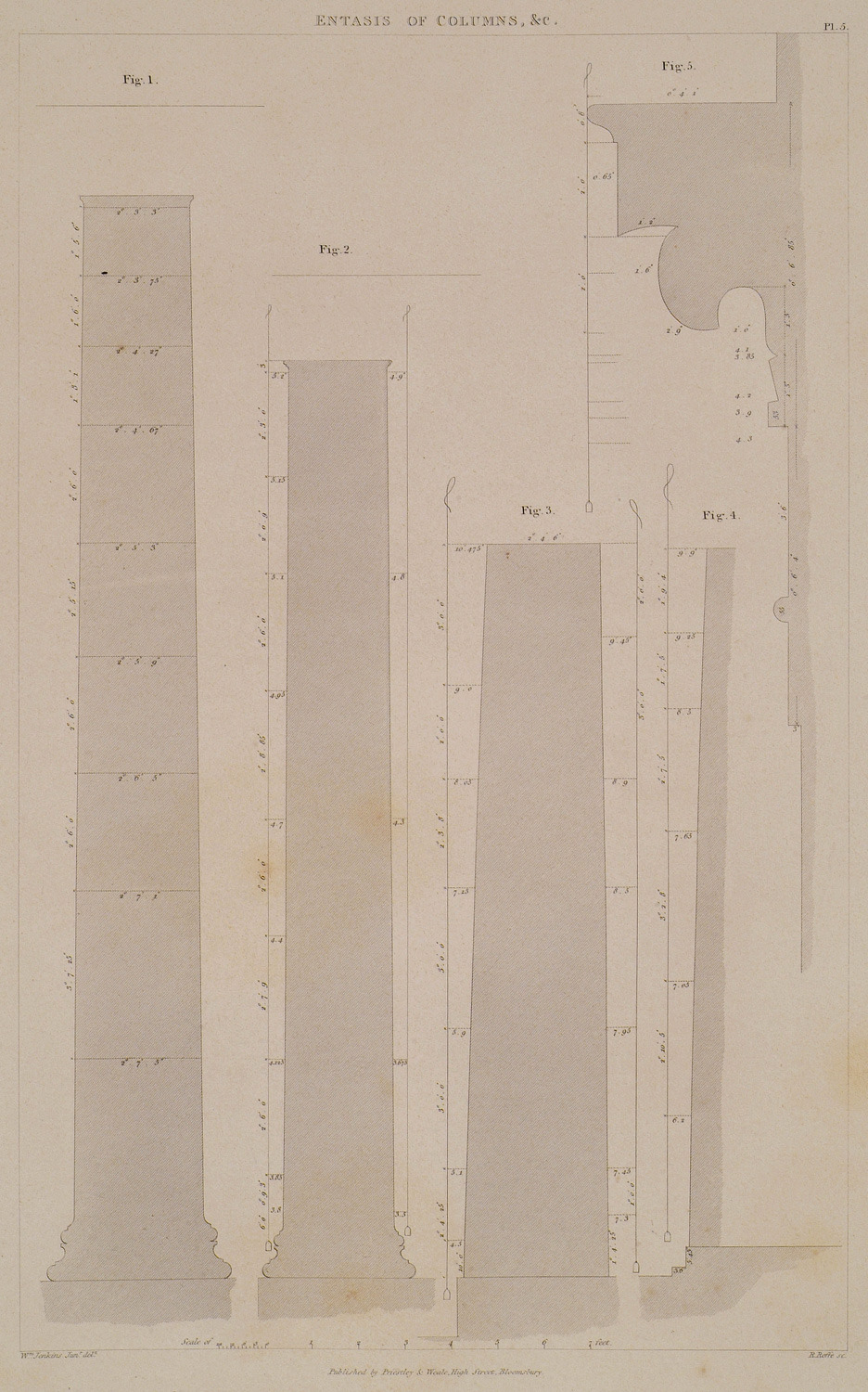 The entasis of various columns Fig 1 Entasis of the columns of the North Portico of the Triple temple, termed the Erecht - Cockerell Charles Robert Kinnard William Donaldsonthomas Leverton Jenkins William Railton William - 1830